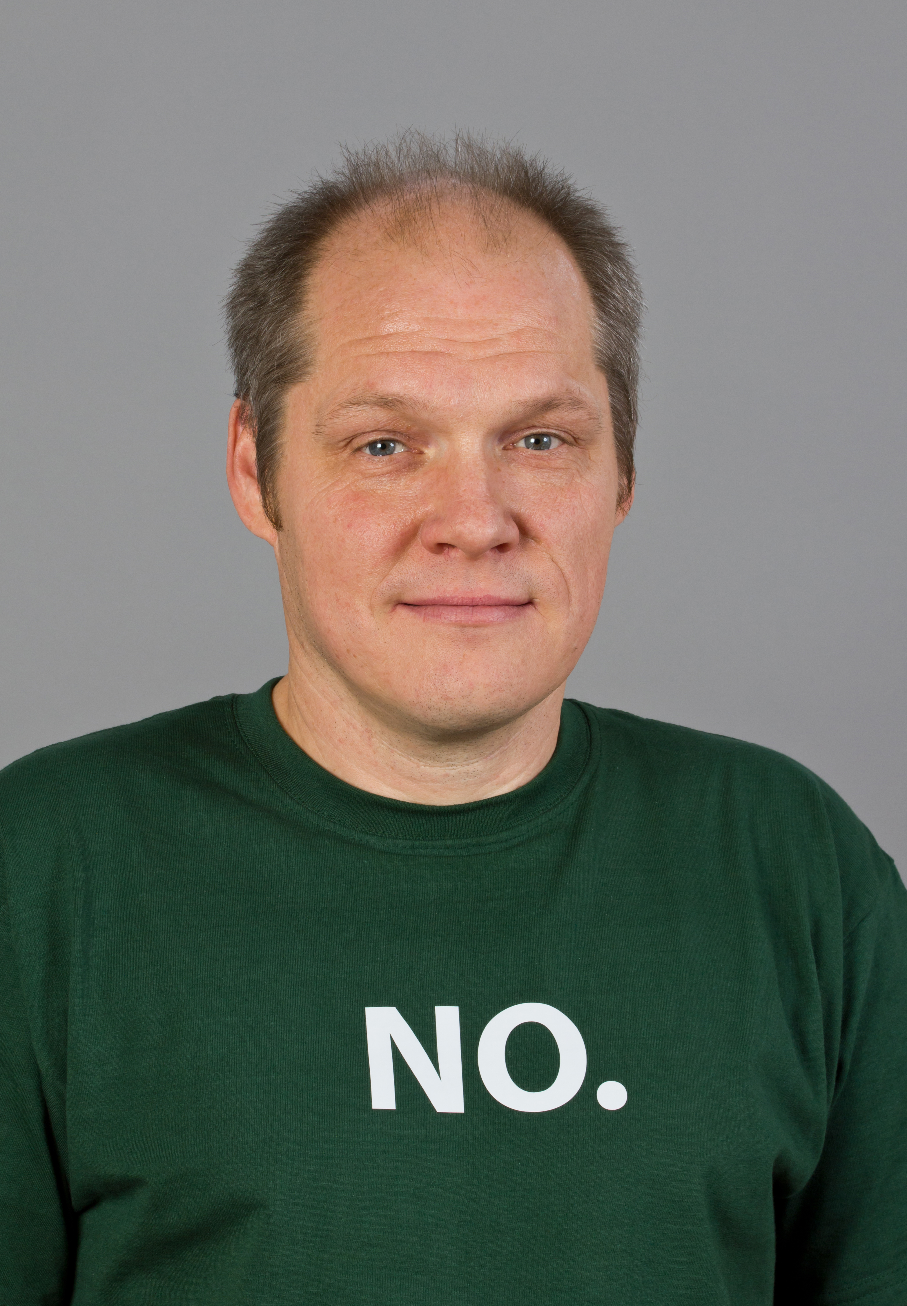 Wolfram Prieß, politician from Germany, member of Abgeordnetenhaus of Berlin (as of 2013)